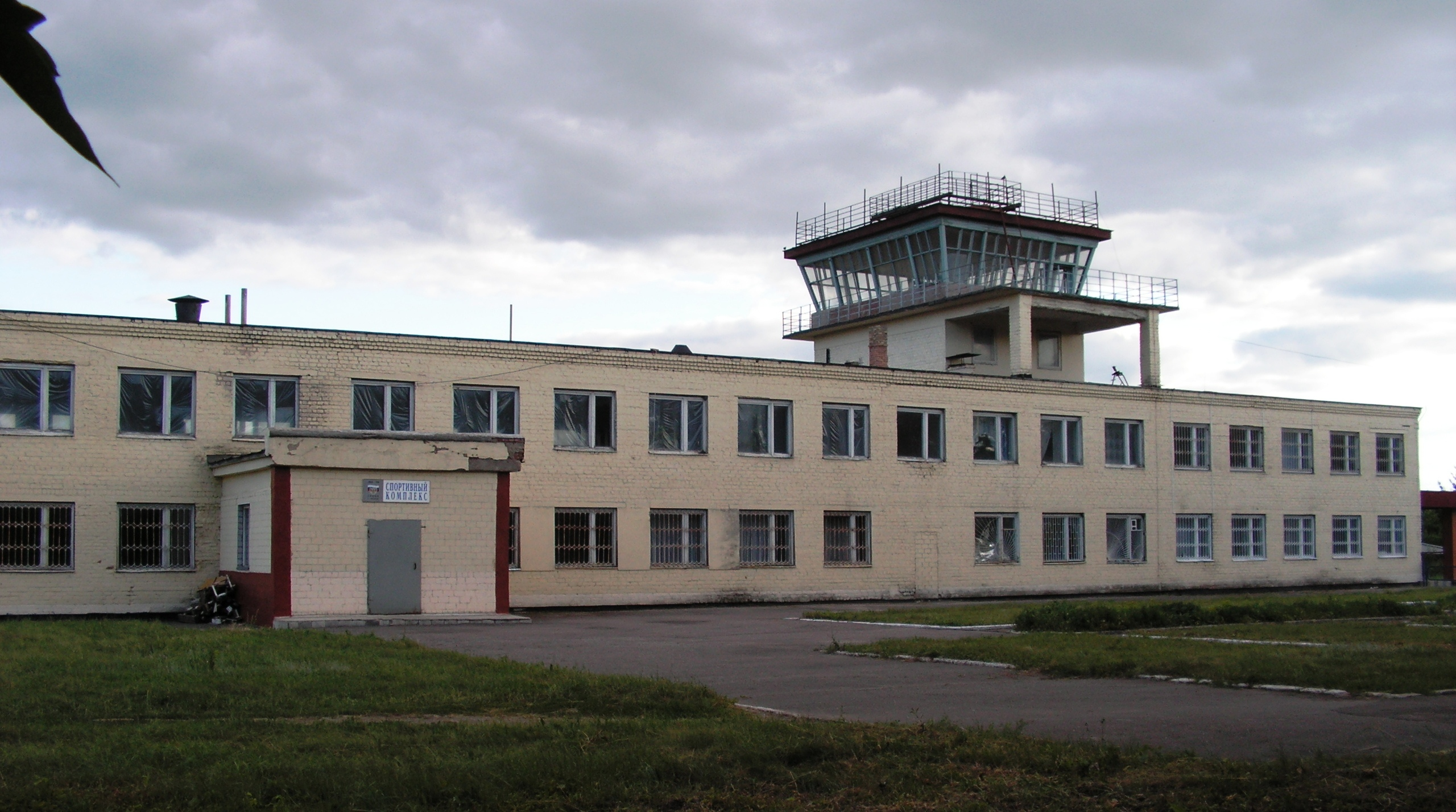 AirPort